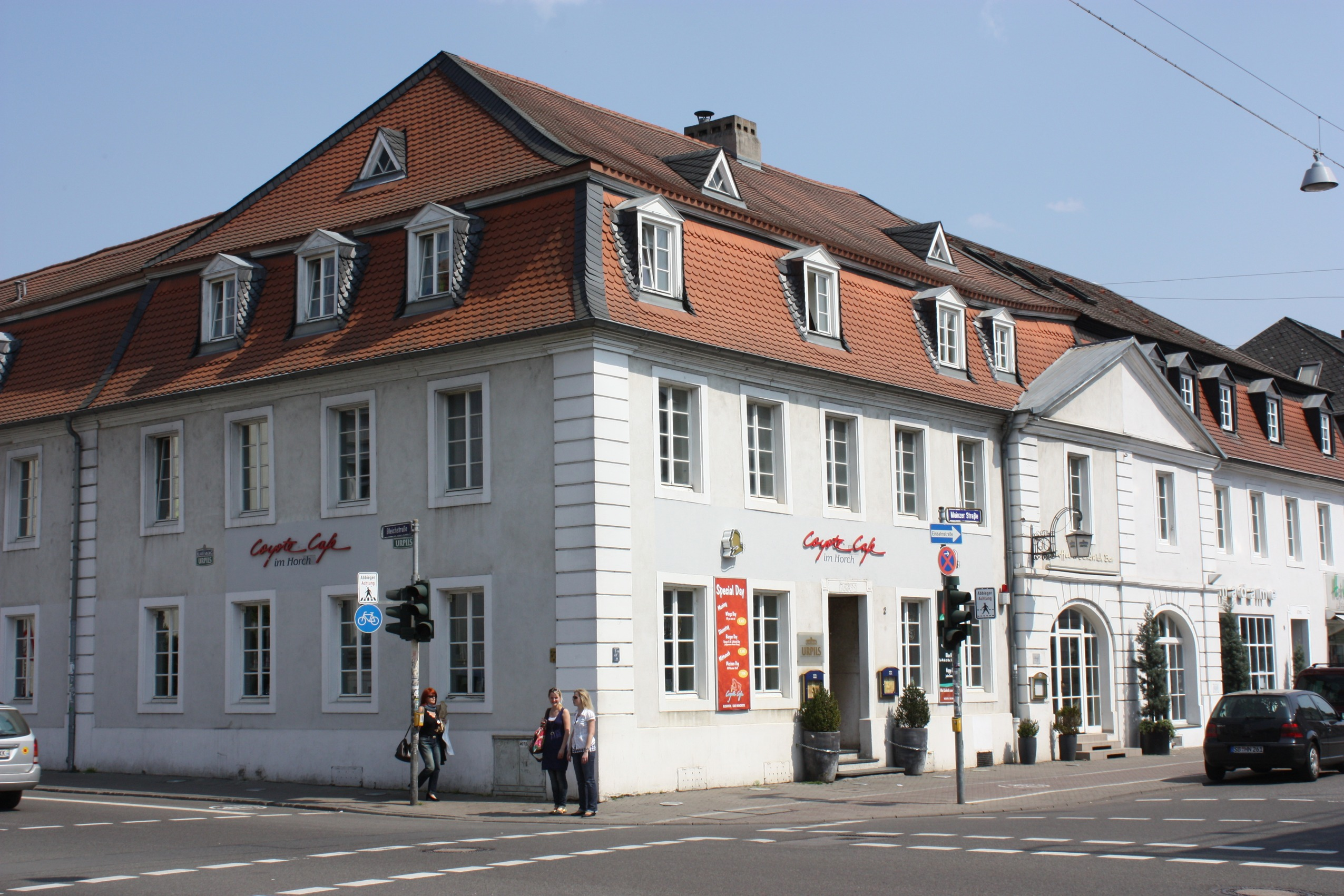 Saarbrücken, house 2/4 Mainzer Straße This is a photograph of an architectural monument. Straße 2/4